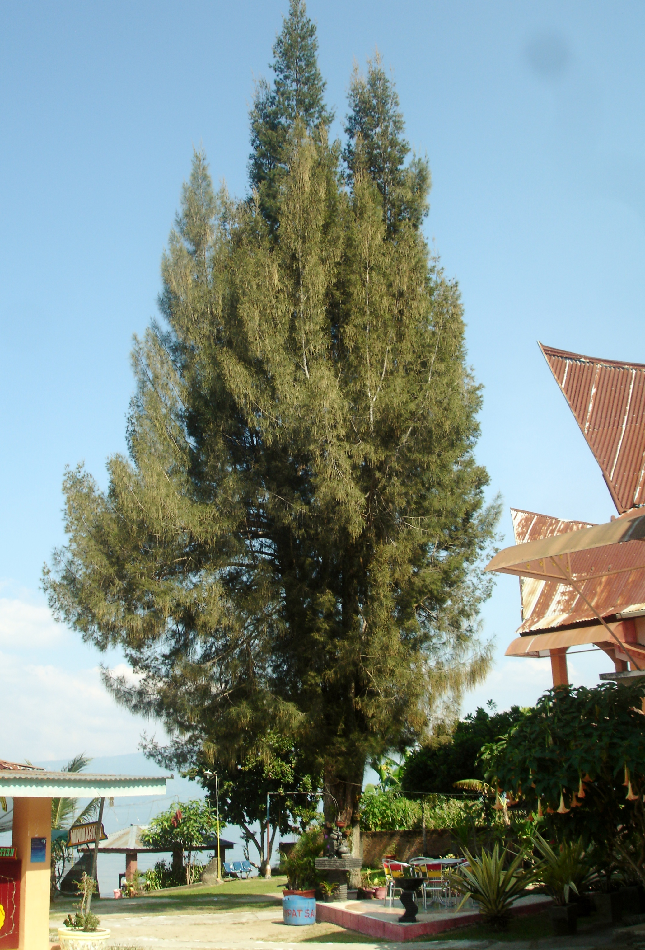 Casuarina Junghuhniana seen in Ambarita, SamosirBahasa Indonesia: Cemara Angin atau Casuarina Junghuhniana di Ambarita, Samosir